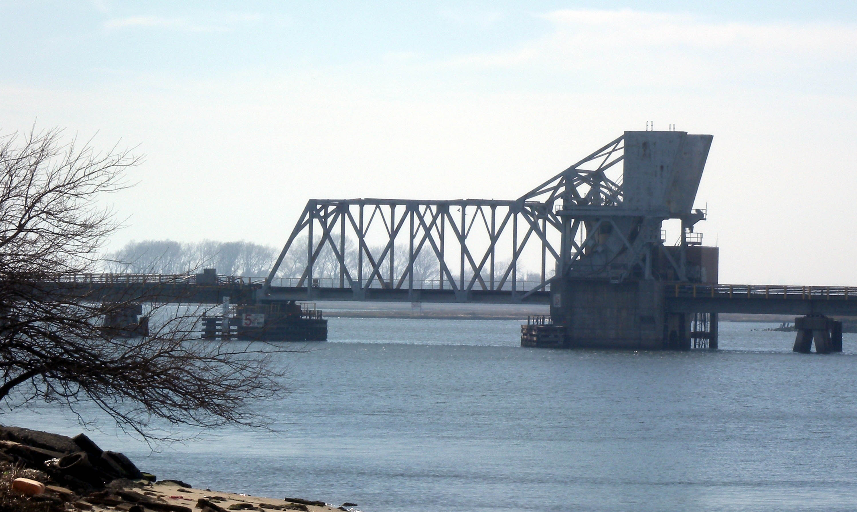 Looking west along south shore of Reynolds Channel at the drawbridge of Long Beach Line on a partly sunny afternoon.